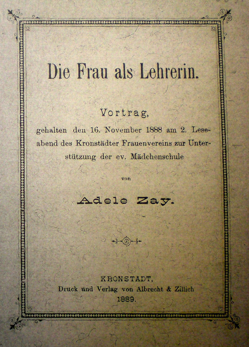 Publication of a speech given by Adele Zay to convince the school administration in Kronstadt, Transylvania to open the teaching profession to women.